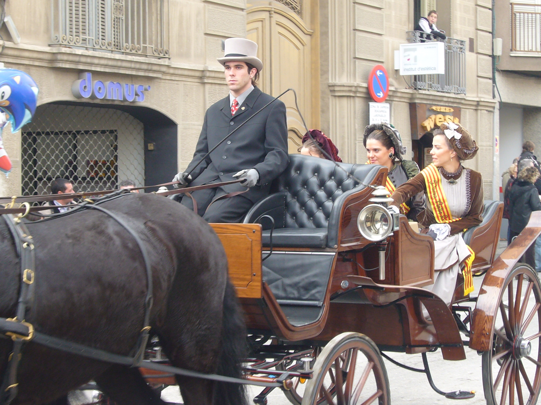 Tres Tombs in Igualada 2008